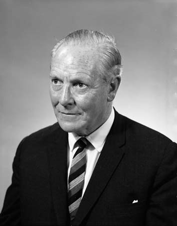 A 1965 black and white portrait of Allan Fraser, MHR for Eden-Monaro